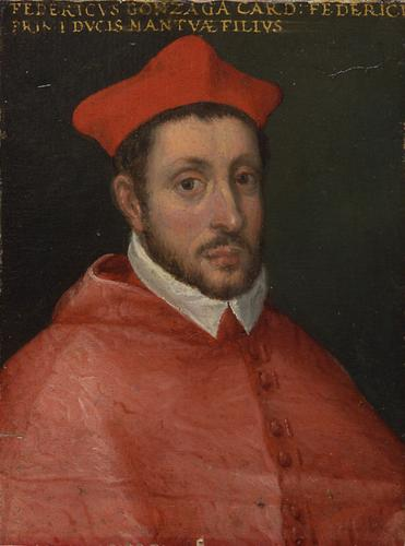 Portrait of Federico Gonzaga (1540-1565)